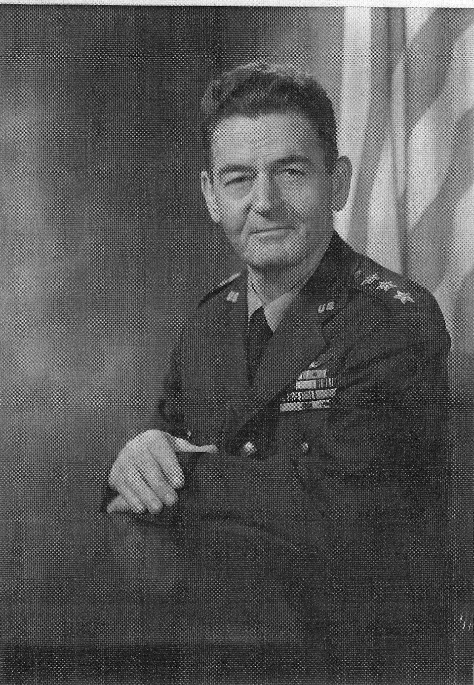 Lt. Gen John A. Samford, USAF in an official USAF photo. Original in color. NARA Citation 342-B-12-036-2-KE-10121 (no neg)